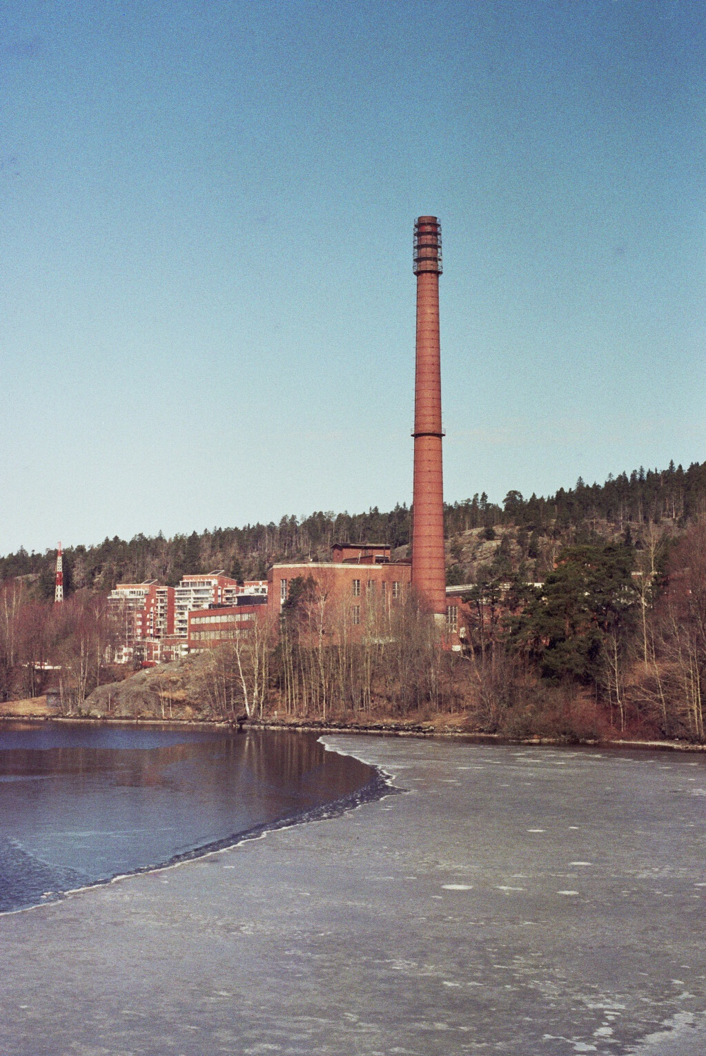 A part of a former tricot factory in the Pyynikki area of the city of Tampere in Finland.